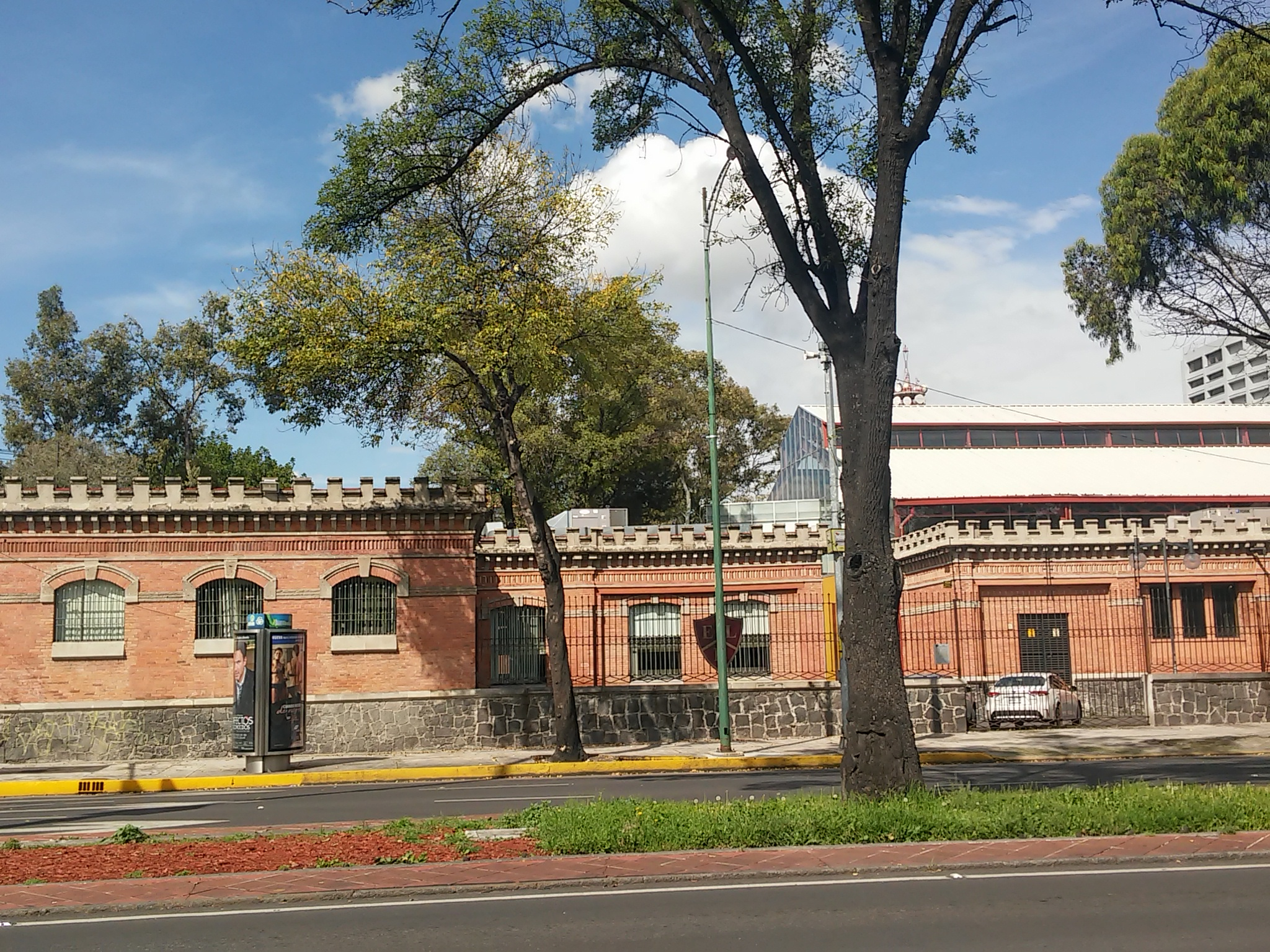 View of the Escuela Libre de Derecho (Free School of Law) from Dr Rio de la Loza in Colonia Doctores in Mexico City